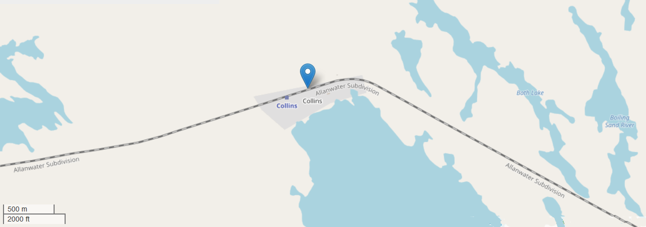 OpenStreetMap of the Collins, Ontario flag stop. Located at the north end of Collins Lake, along CN's Allanwater subdivision.